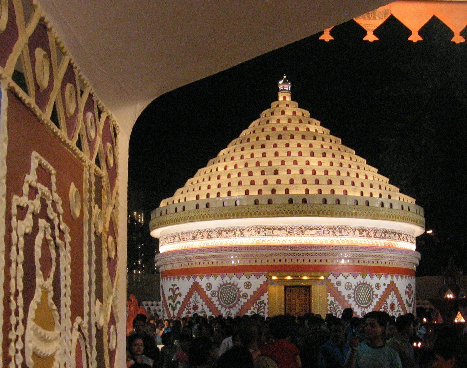 Durga Puja pandal by Suruchi Sangha, in New Alipore, Kolkata, adopting the Gurjari handicraft style of Western Gujarat. This pandal, which has consistently won awards in the last several years, is also a contender as one of the top pandals of 2007.